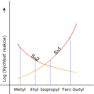 Graph of Sn2 and Sn2 reaction rates, designed by SudhirP, modified by me